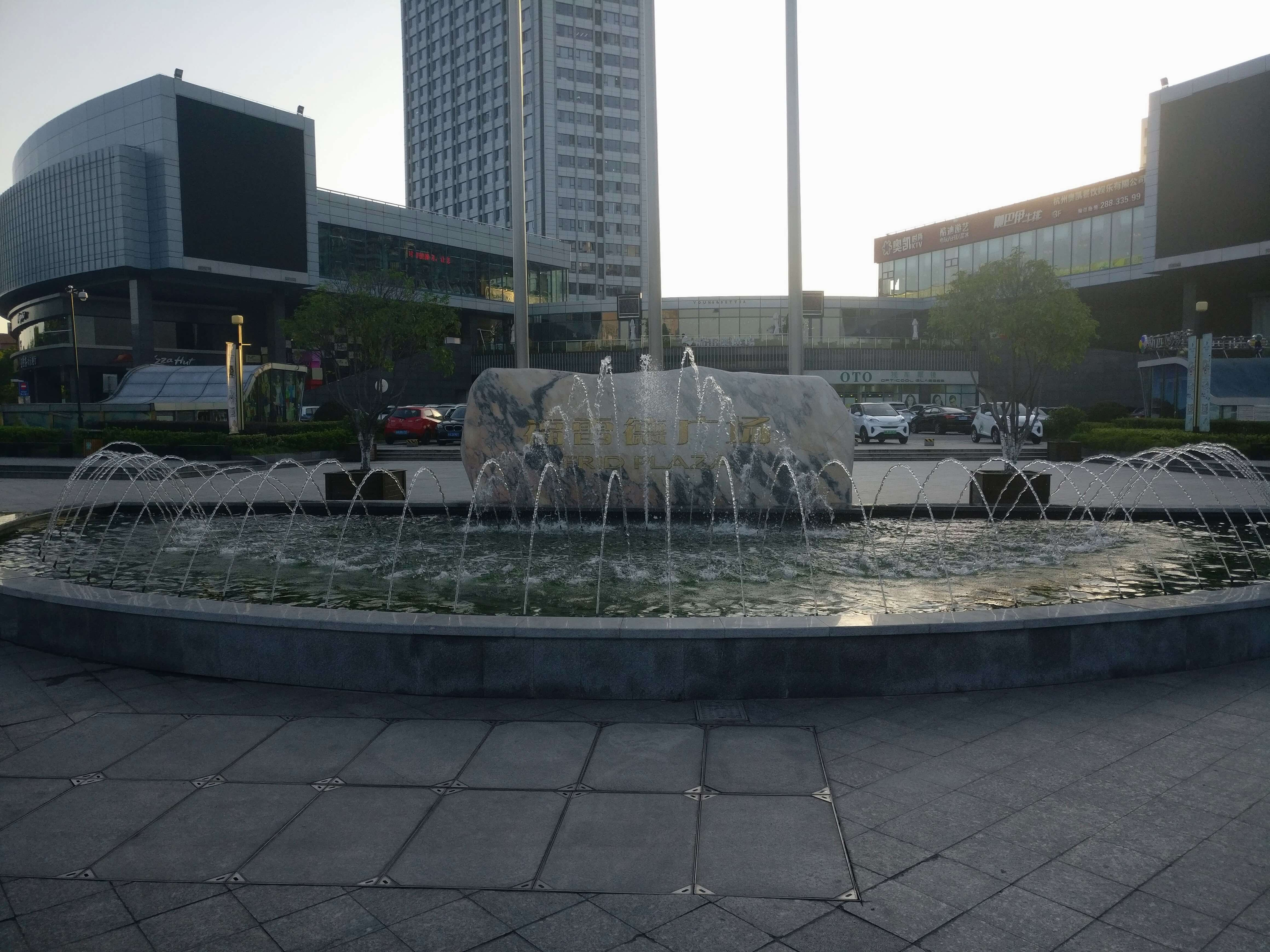 Frid plaza in Xiasha. 中文（中国大陆）: 下沙福雷德广场。